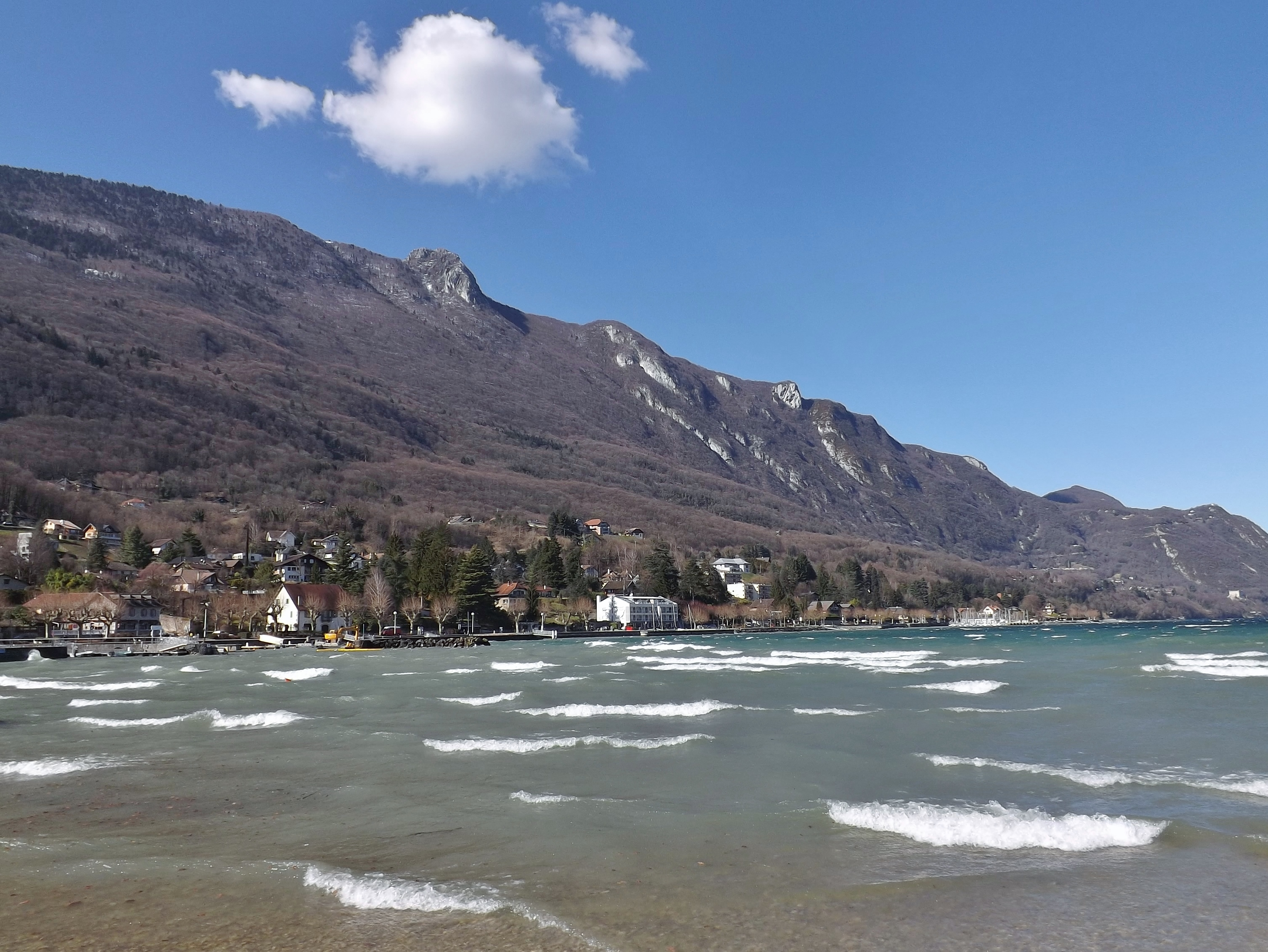 Sight of Le Bourget-du-Lac village and the unusual choppy waters of the lac du Bourget lake during a windy day, in Savoie, France.